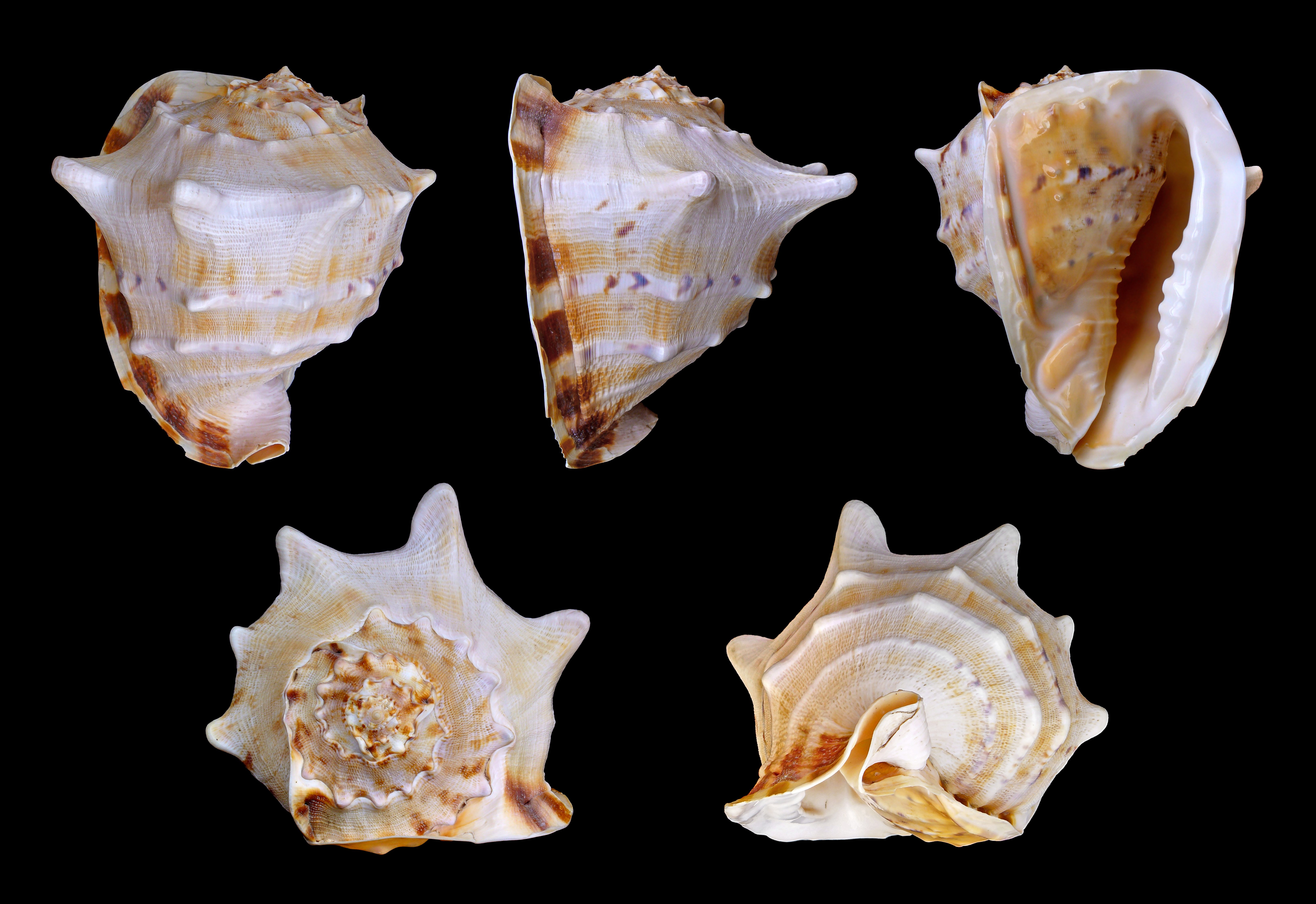 Giant Helmet; Length 20 cm; Originating from the Philippines; Shell of own collection, therefore not geocoded. Dorsal, lateral (right side), ventral, back, and front view